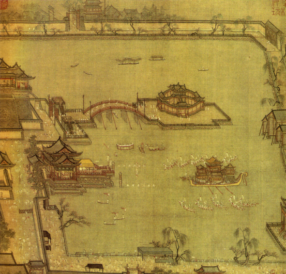 Games in the Jinming Pool, by Chinese artist Zhang Zeduan, a silk painting with dimensions of 28.6 by 28.5 cm, dated to the Northern Song Dynasty (960-1127 AD). It depicts the imperial gardens of Kaifeng, the capital city of China during the Northern Song era.